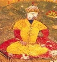 Tarikh-i-Hani Abul Khair Khan's accession to the throne.